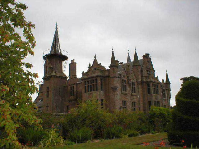 Ecclesgreig House, St Cyrus. The extraordinary outline of Ecclesgreig, the stuff of Gothick fantasies: presently in a near derelict condition (2005) it has lain empty and deteriorating for over 50 years.